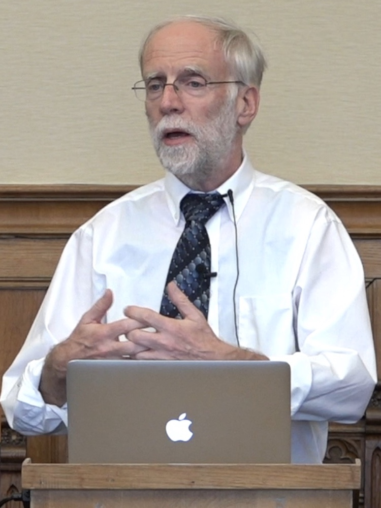 Professor Francis X. Clooney from Harvard Divinity speaking at the School of Divinity, University of Edinburgh